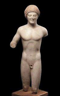 The so-called "Reggio kouros" ("Kouros di Reggio Calabria", or "Efebo di Reggio Calabria"), ancient Greek statue, in Paros marble, sculpted in the 6th century BC (ca. 500 b.C.) by a sculptor from Reggio Calabria or from Western Sicily. It is exhibited since 2000 in the Museo nazionale della Magna Grecia in Reggio Calabria (Italy).